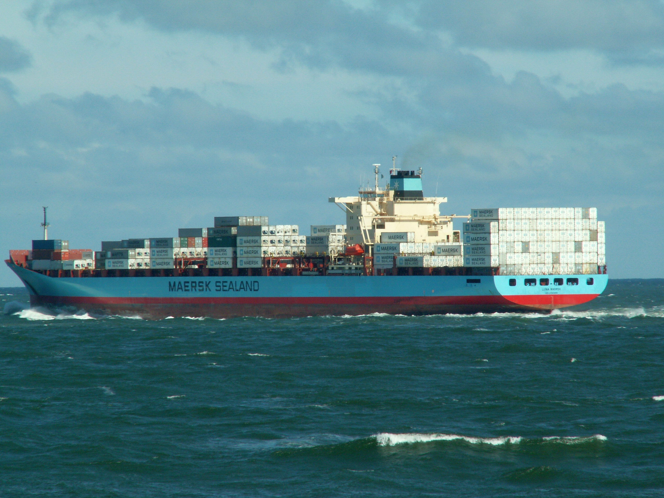 Luna Maersk leaving Port of Rotterdam, Holland 10-Aug-2005.